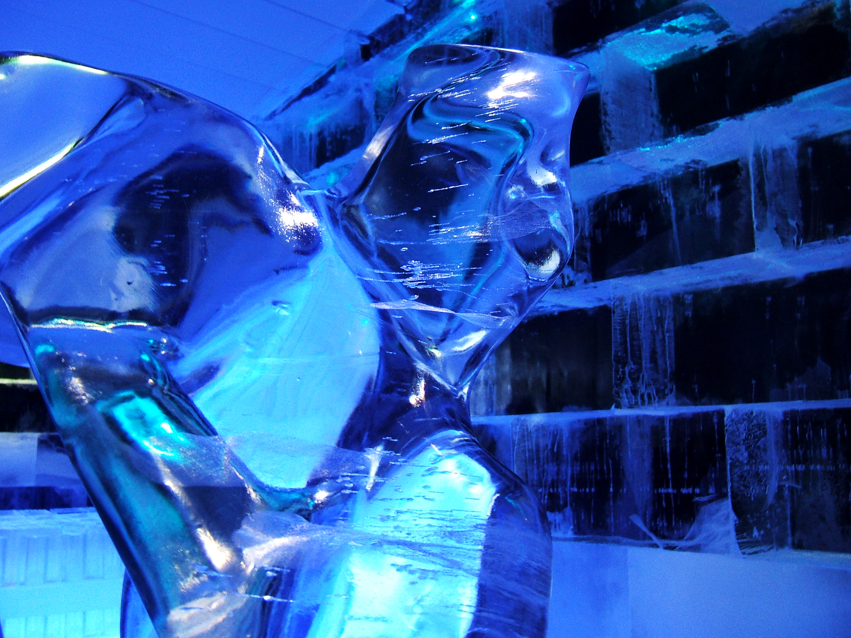 Sculpture in an ice bar in stockholm, Sweden